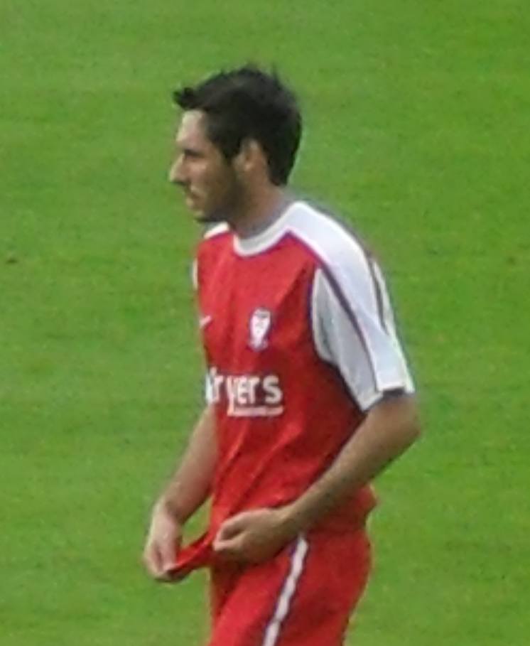 Danny Racchi